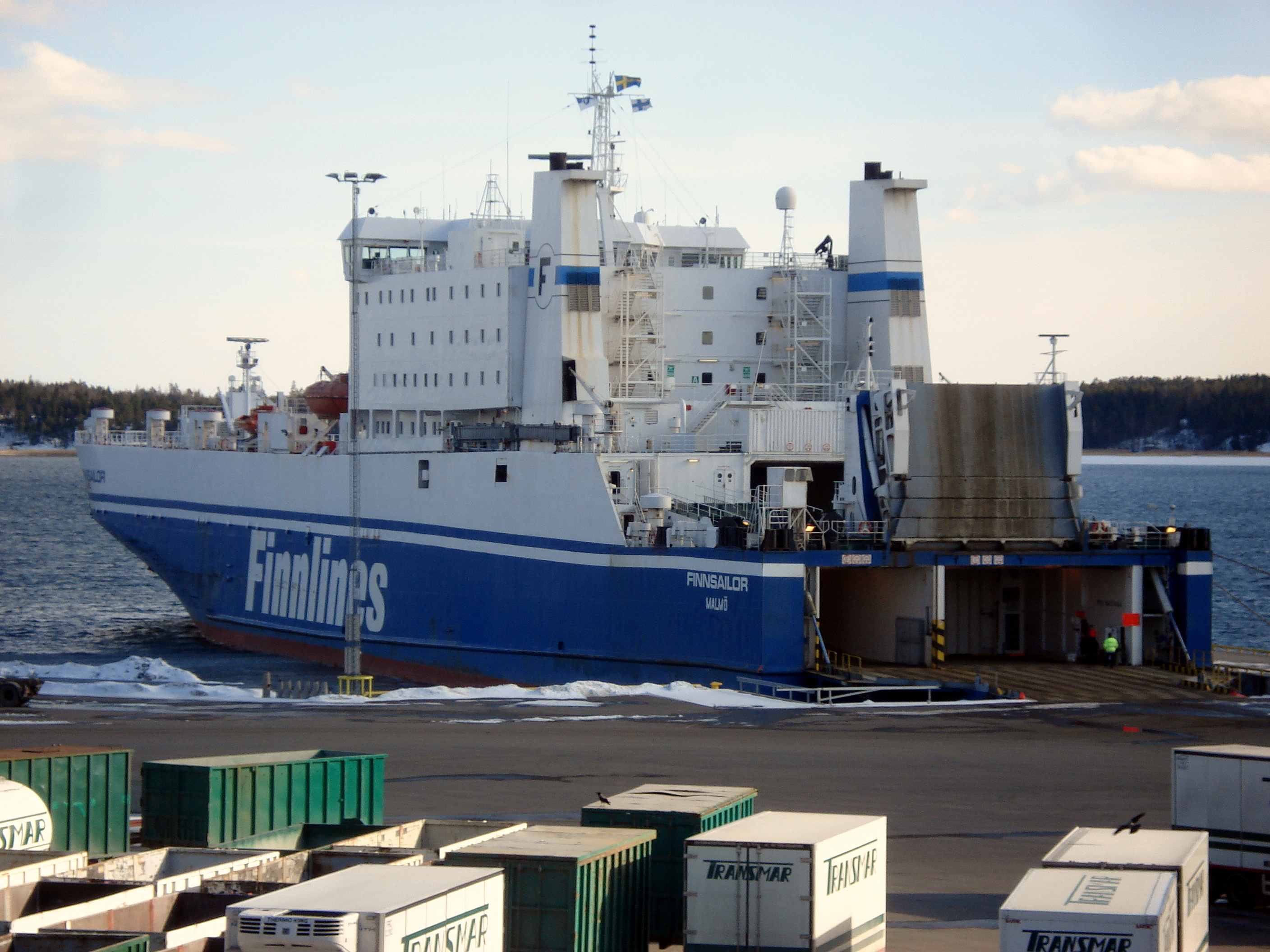 MS Finnsailor at Port of Naantali, Naantali, Finland.